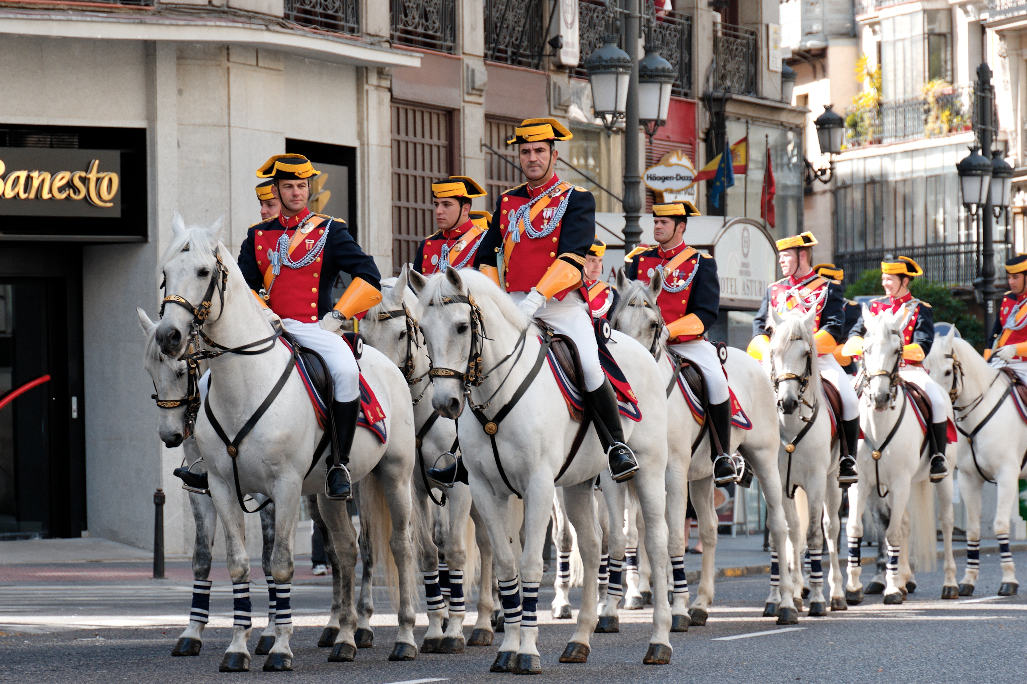 Horse guards of the Guardia Civil in dress uniform during a military parade for the Dos de Mayo celebrations. Calle de Sevilla (street), Madrid.